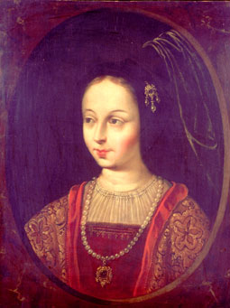 Beatriz Galindo, Spanish Latin scholar and teacher of the 15th century (born 1465 Salamanca - died, 23 November 1534 Madrid). Consejería de Educación de la Comunidad de Madrid.